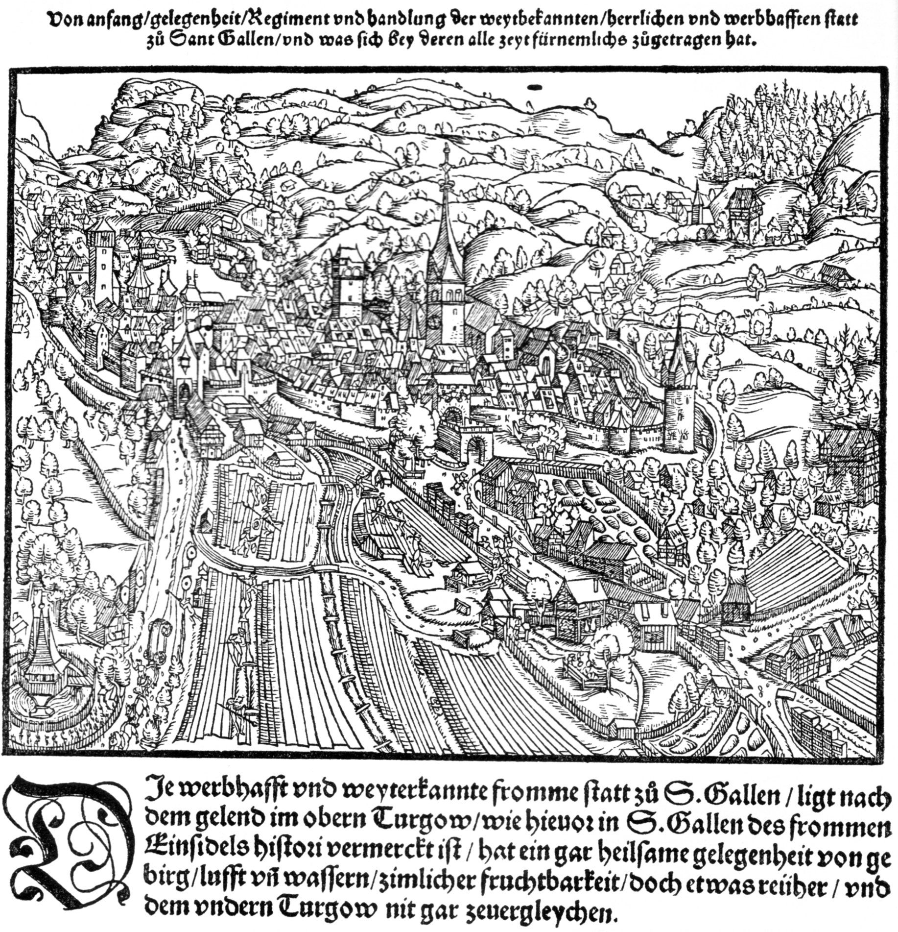 The City of Sankt Gallen, Switzerland in the cronical of Stumpf, 1548, after Hans Asper